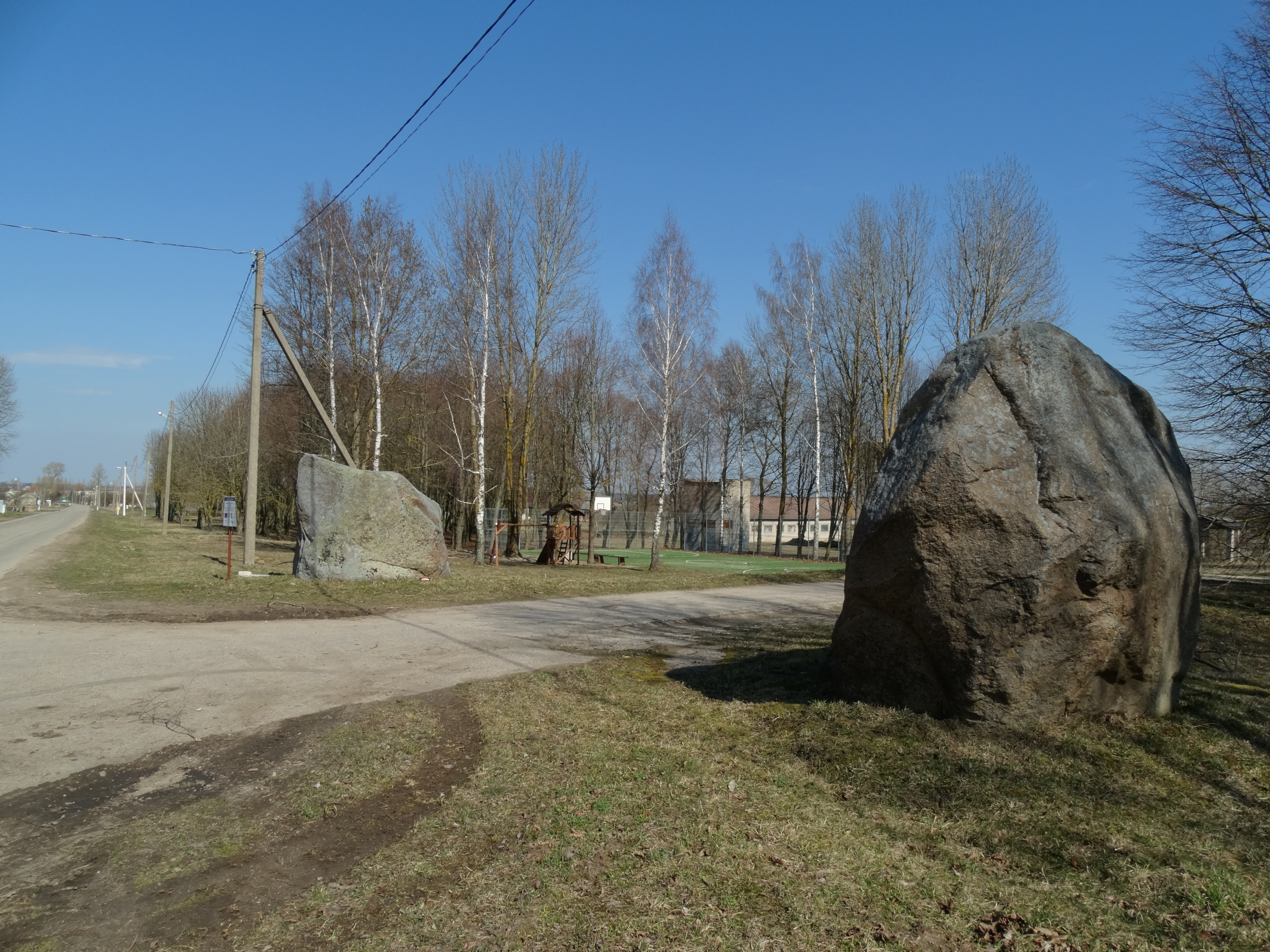 Stones, Meironiškiai, Kėdainiai district, Lithuania